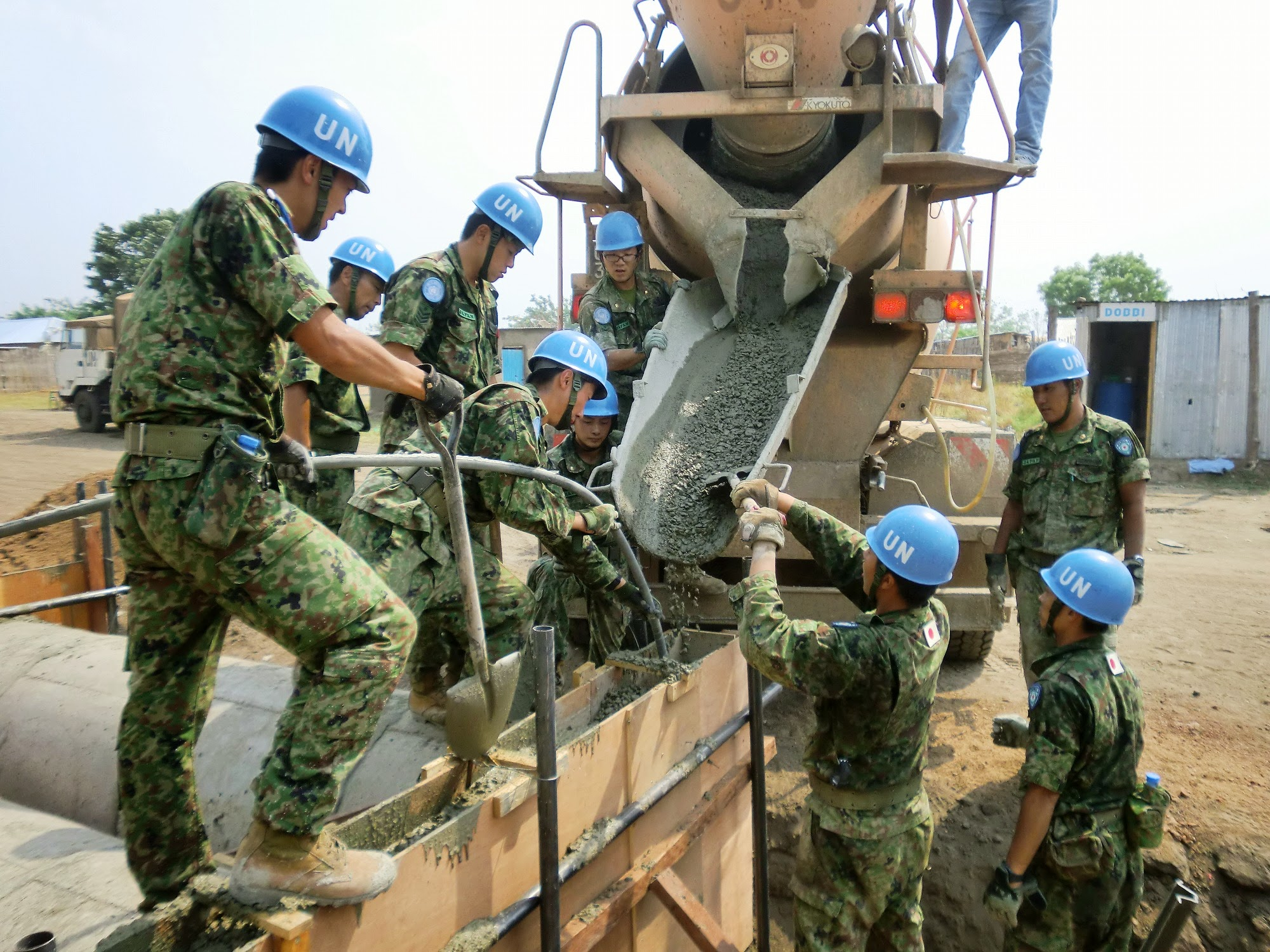 Title 25.2.28 ナバリ地区コミュニティ道路整備.jpg Album 国際平和協力活動等（及び防衛協力等） 国連南スーダン共和国ミッション 道路整備